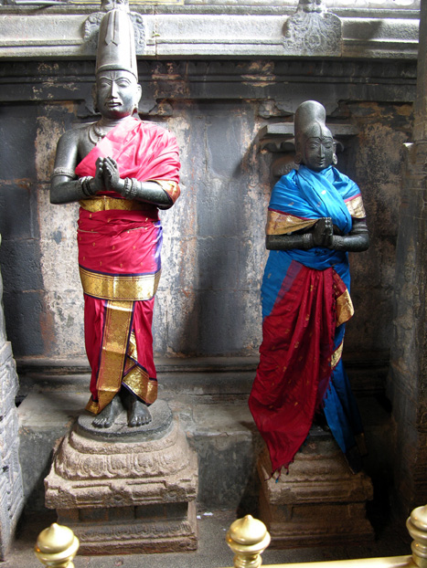 Achyuta Deva Raya, Vijayanagara Emperor and his Queen (name unknown)